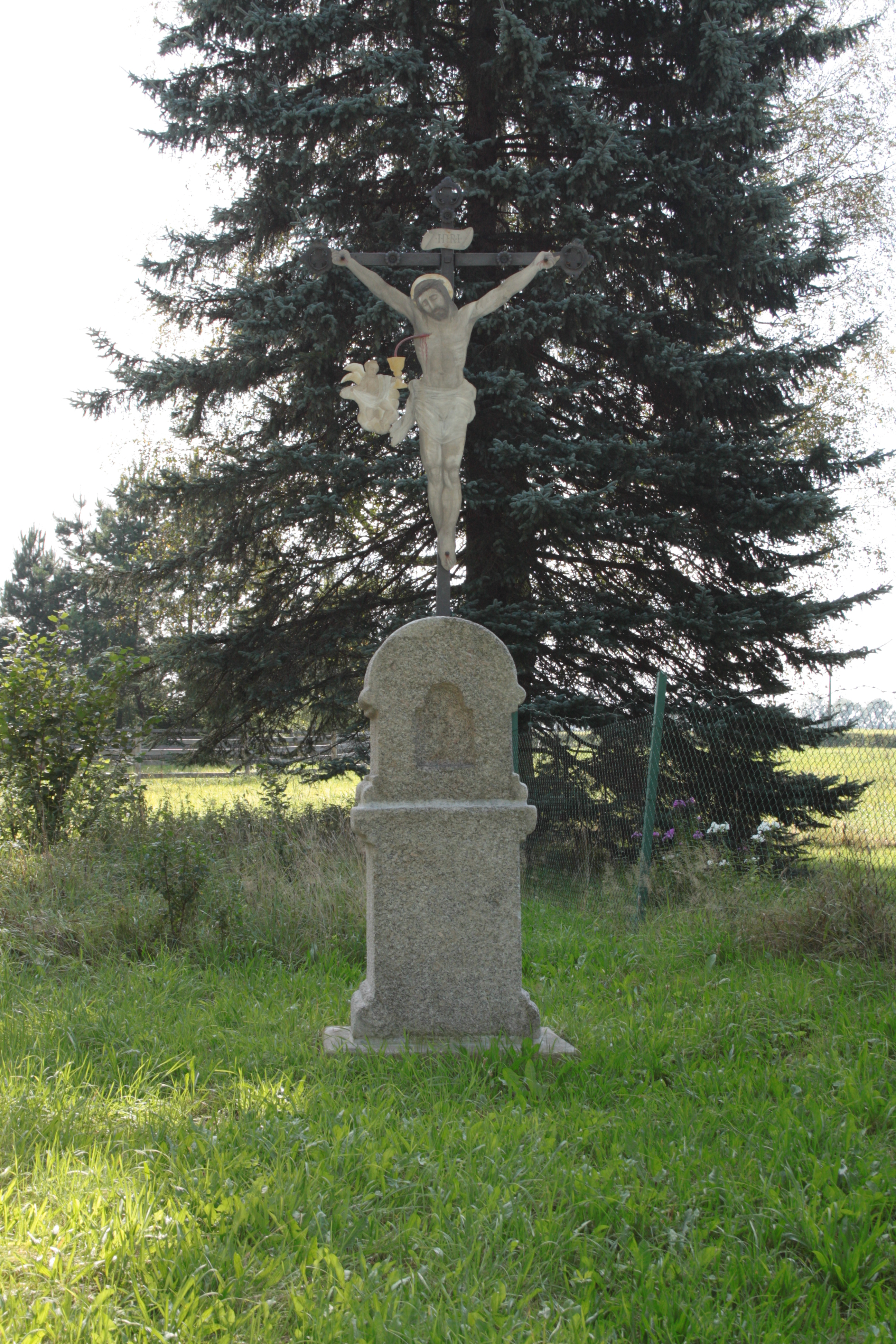 This photograph was taken with a DSLR from WMCZ's Camera grant. Krucifix v Dolní Řasnici v okrese Liberec.